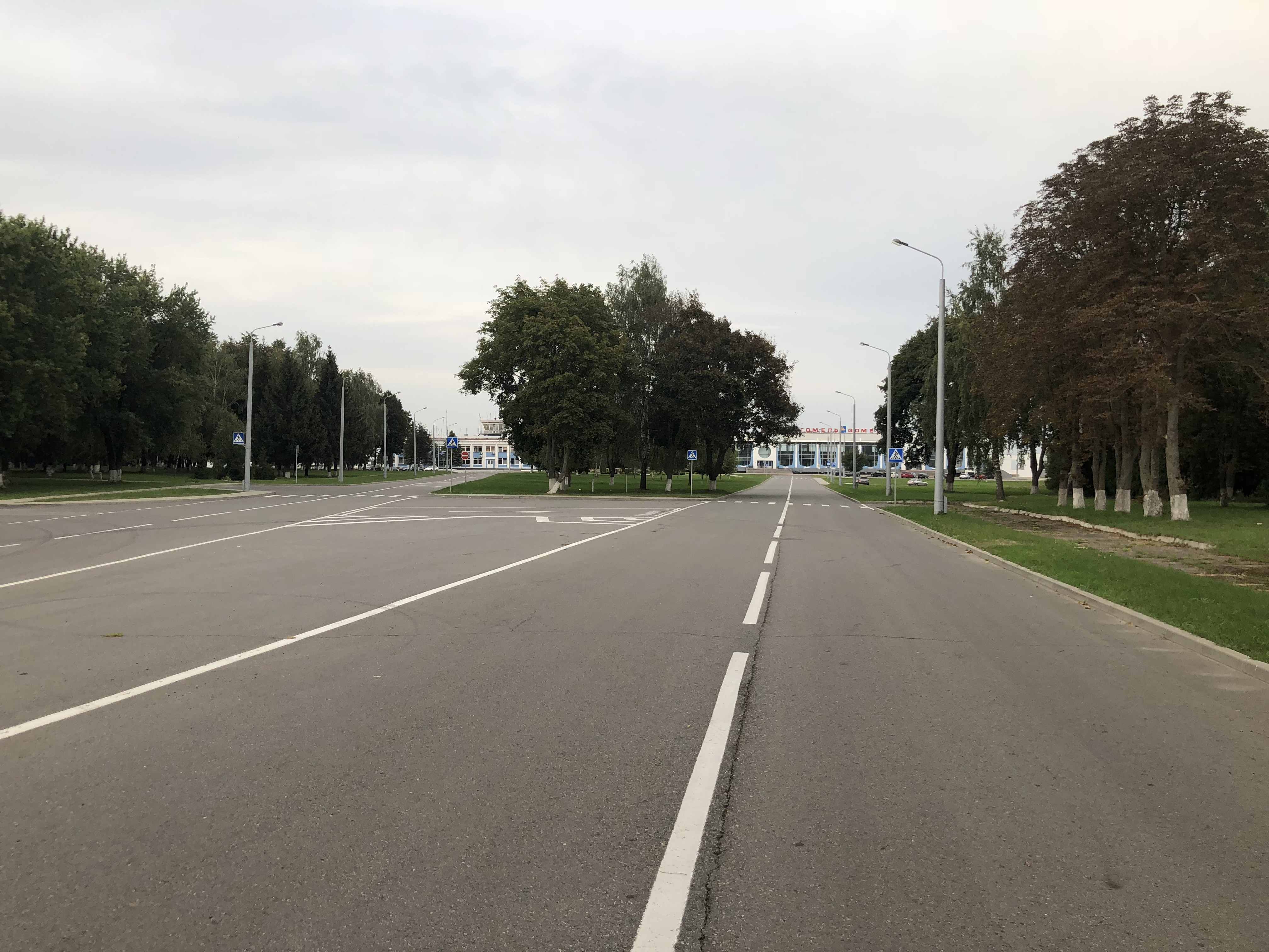 Airport Gomel, September 2018